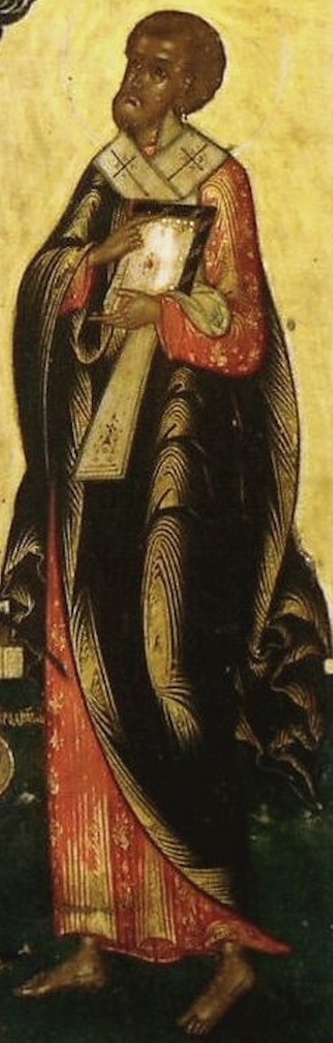 Herodion of Patras, detail of the Icon of Archangel Selaphiel and the Apostle Herodion, Russia, 1840. Private collection in Germany.